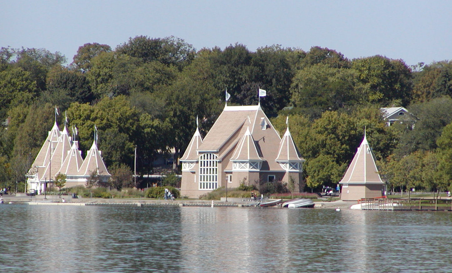 Bandshell (a music pavilion) at Lake Harriet in 2006